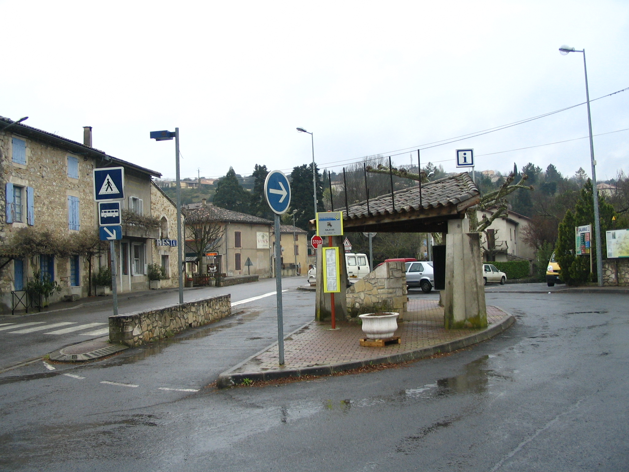 Village Salavas in the Ardèche valley, Ardèche region, France